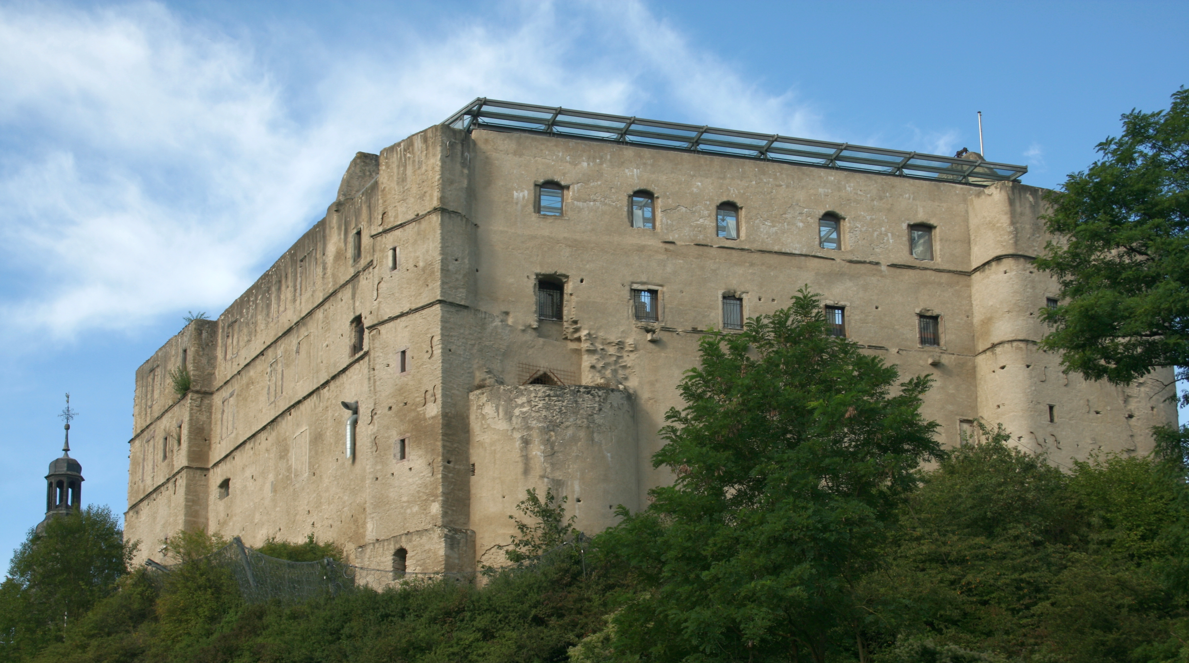 Laneburg castle (aka Schloss Löhnberg), Löhnberg, Central Hesse, Germany.